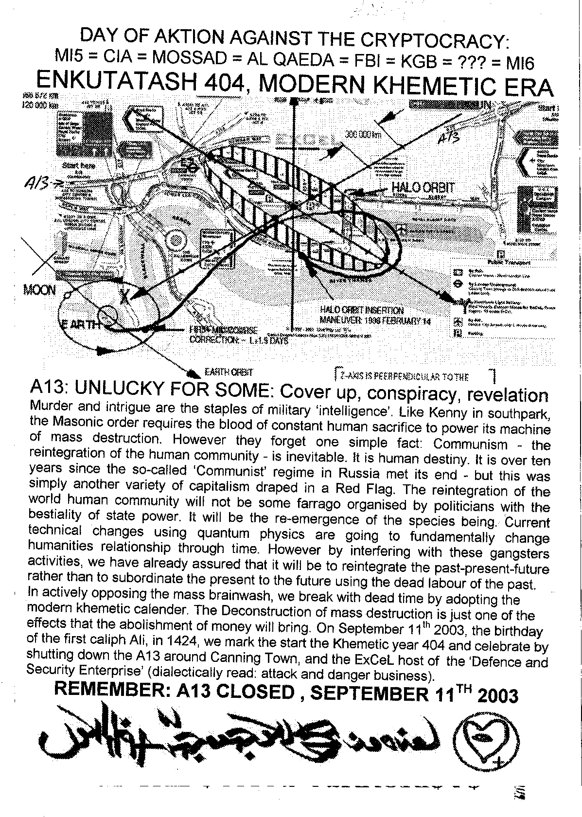 evol psychogeographic